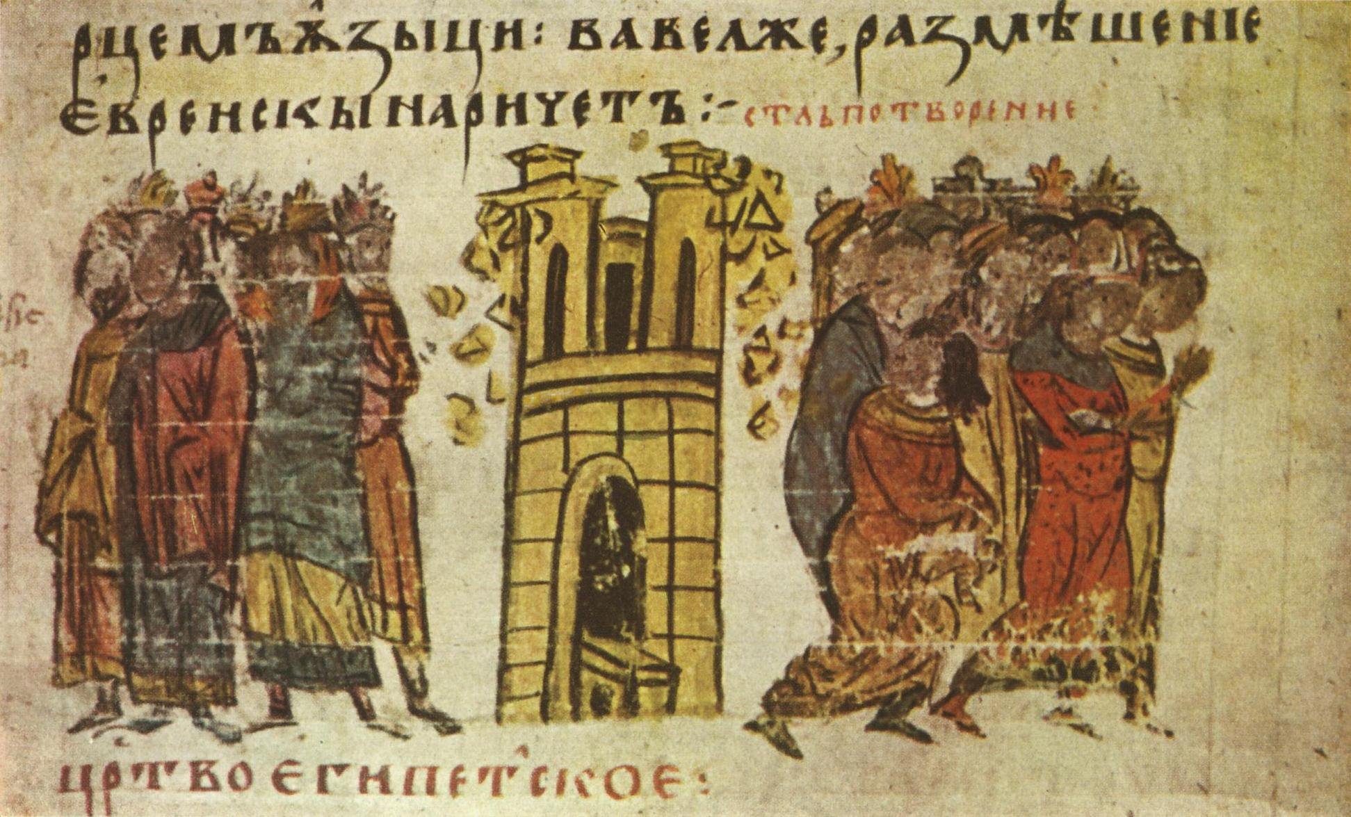 Miniature 8 from the Constantine Manasses Chronicle, 14 century: Construction and destruction of the Tower of Babel